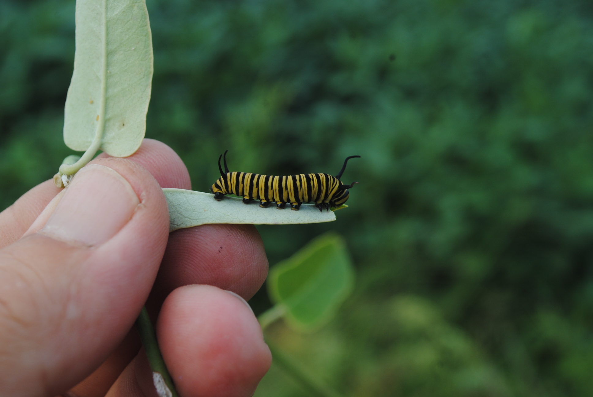 A Danaus plexippus caterpillar feding on a young leaves of Araujia sericifera